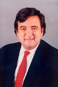 Bill Richardson